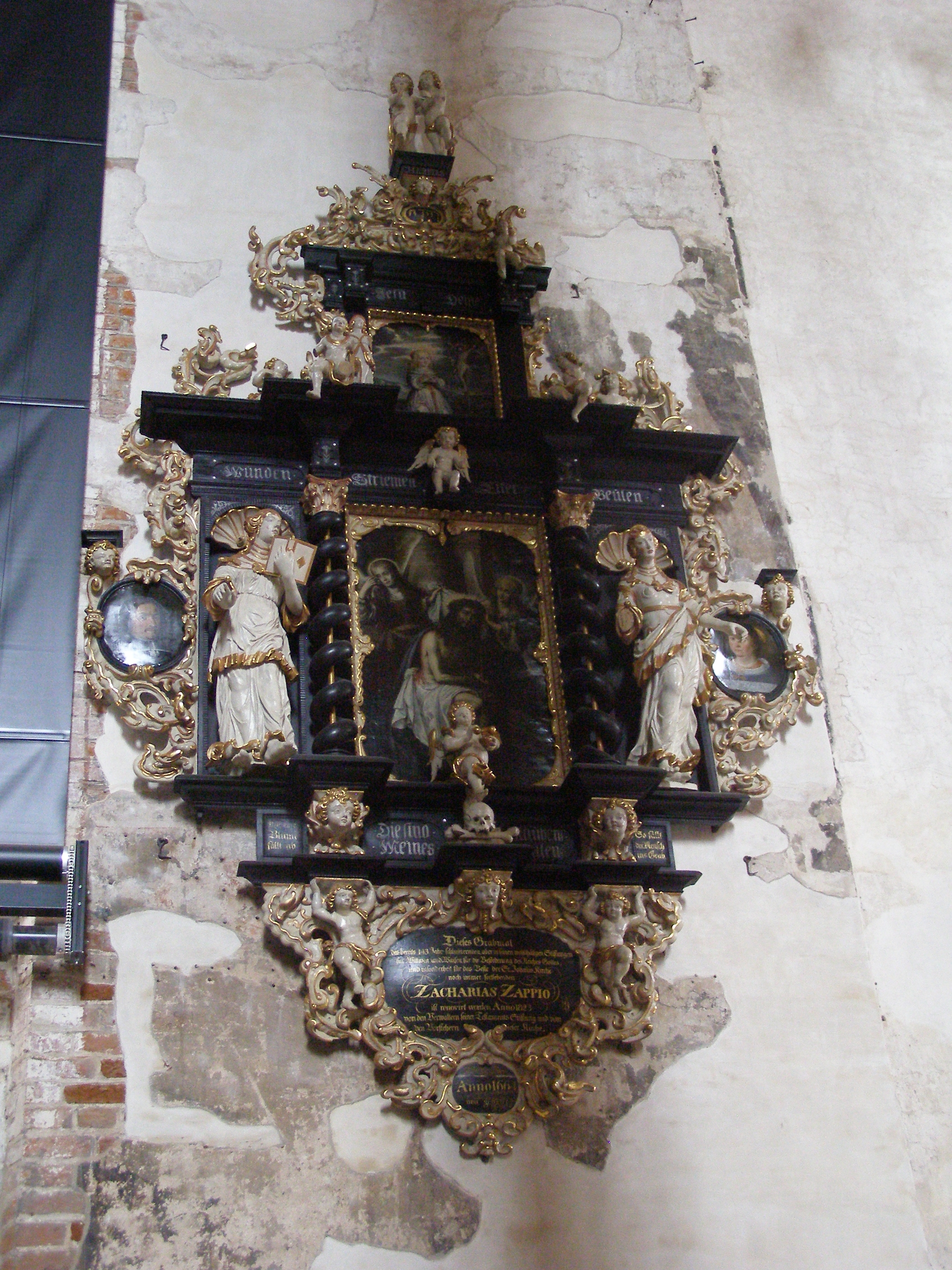 Gdańsk - St. John's church